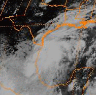 Satellite image of T. D. #8 of 1981